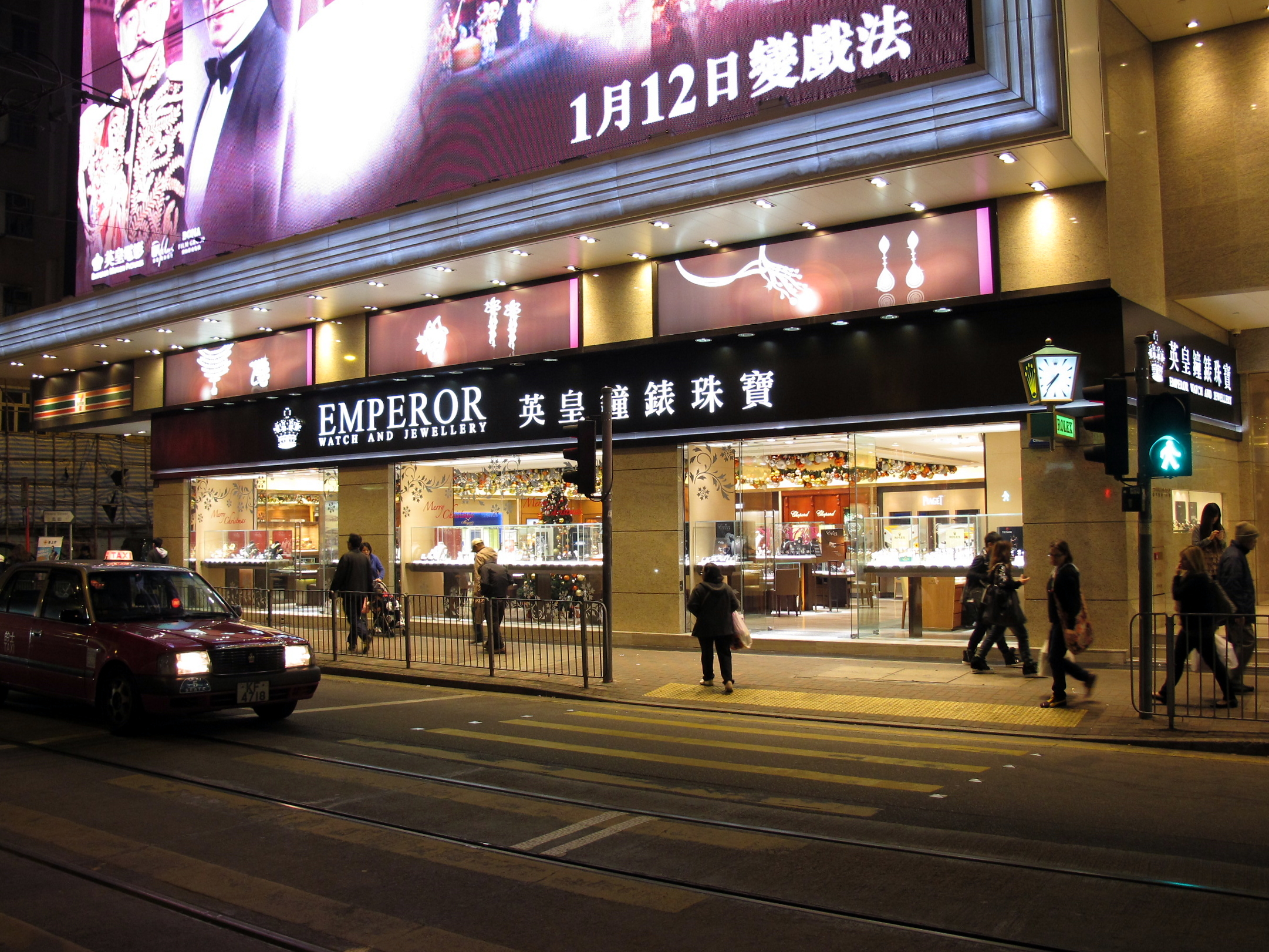 Emperor Jewellery in Wan Chai